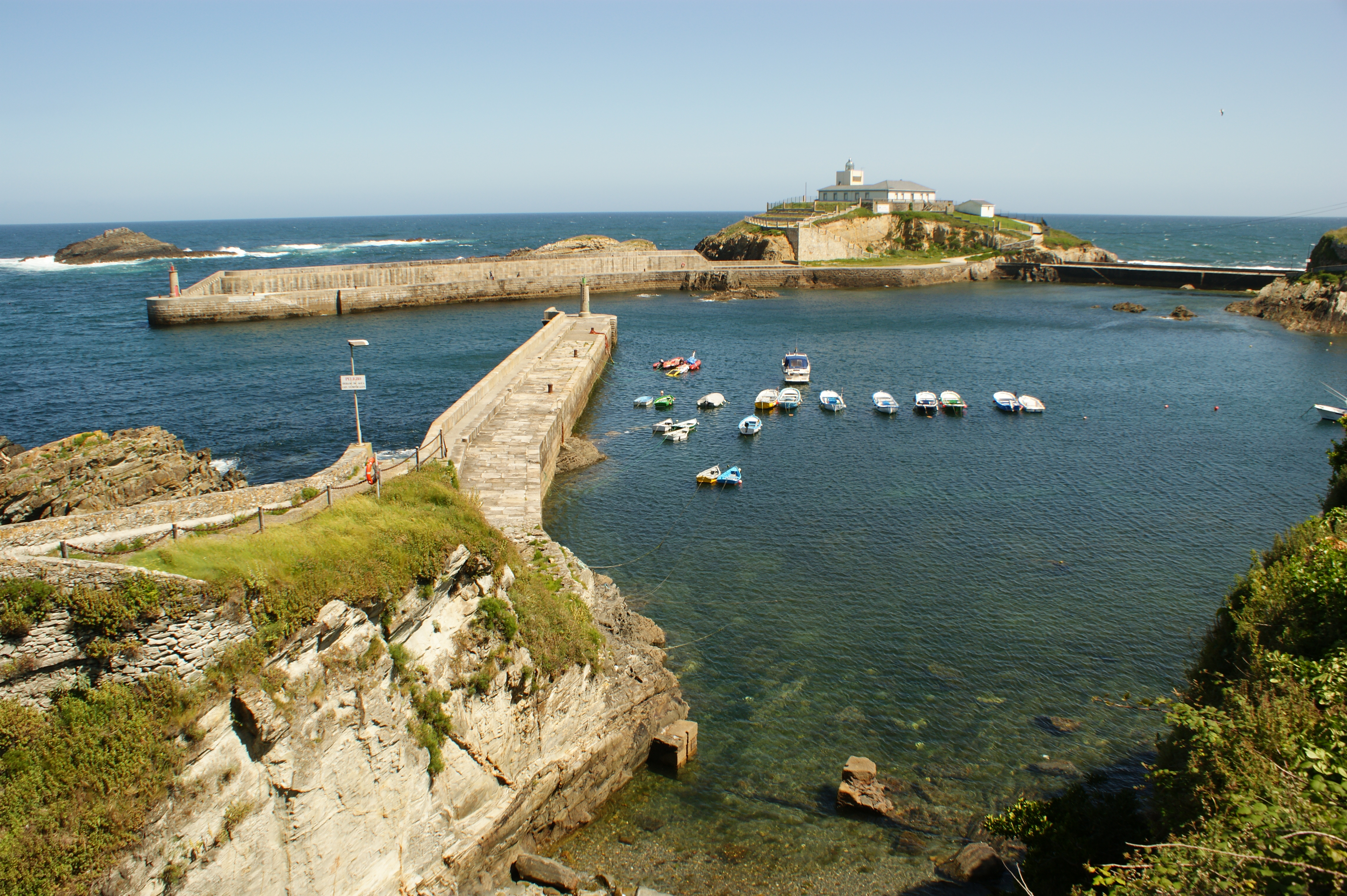 Faro Isla Tapia